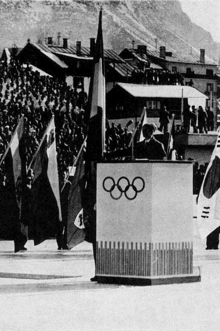 The alpine skier Giuliana Minuzzo of Italy reads the Olympic Oath during the opening ceremony of 1956 Winter Olympics in Cortina d’Ampezzo. Mrs. Minuzzo was the first woman ever to pronounce the oath in the history of the Olympic Games.